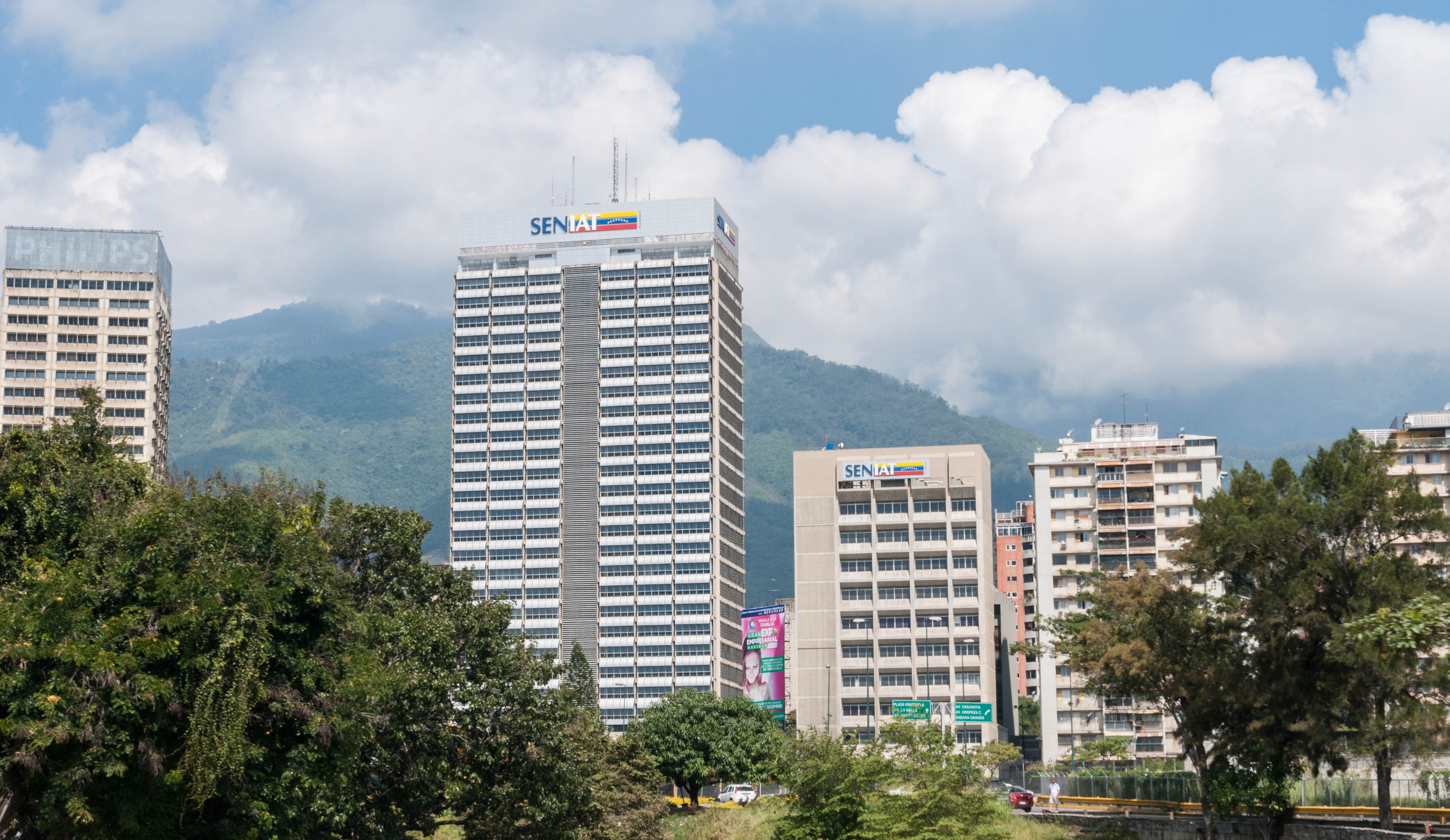 SENIAT Building in Caracas